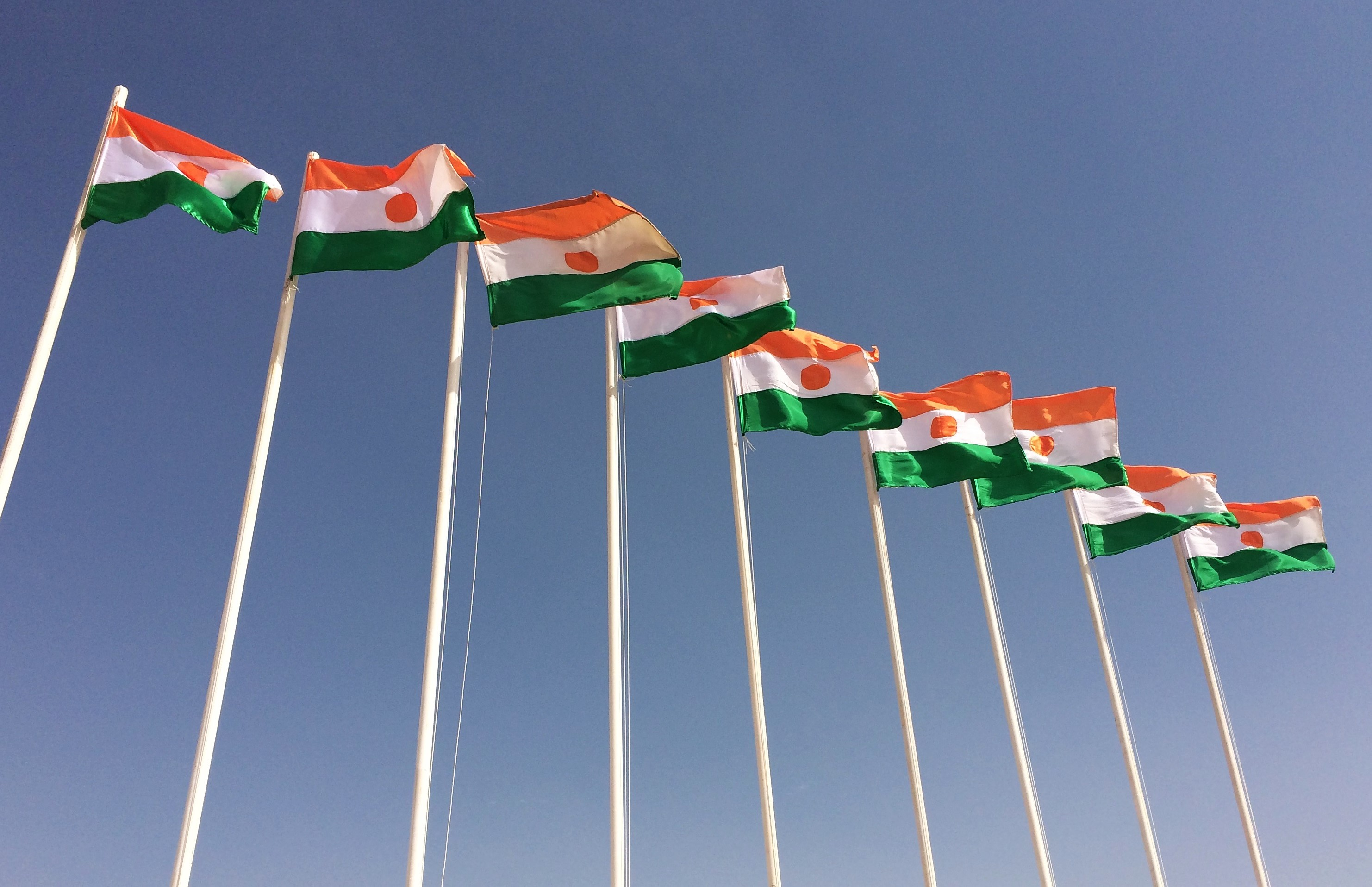 Nine flags of Niger (picture taken in Zinder).